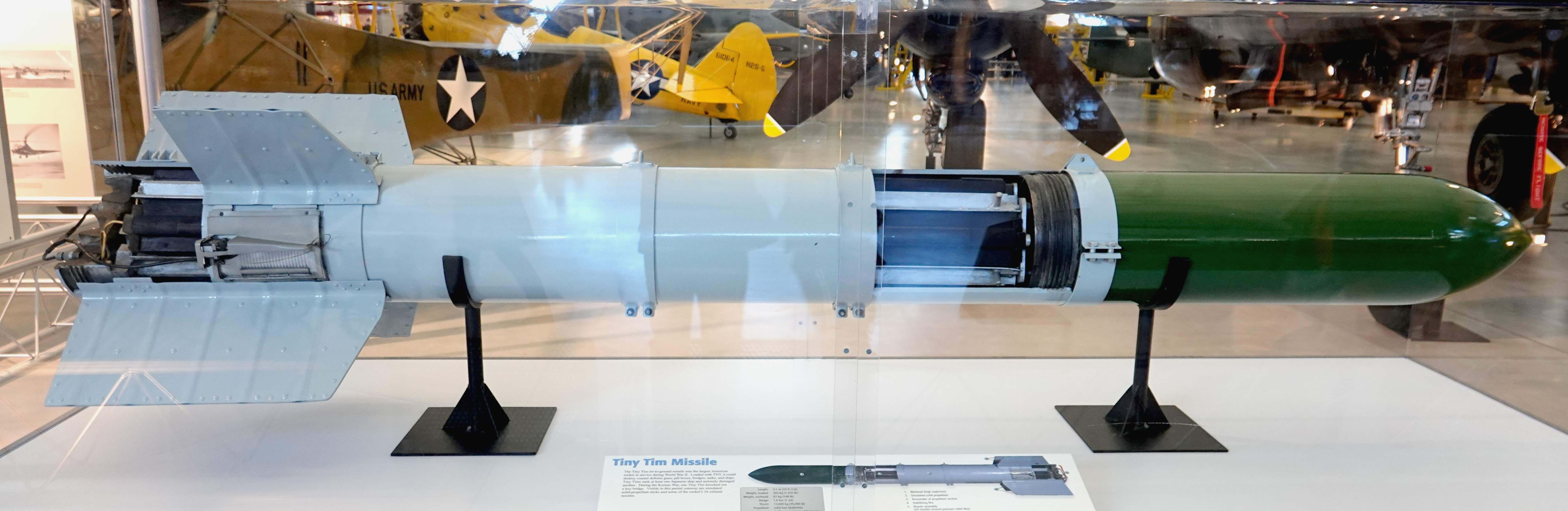 The Tiny Tim air-to-ground missile was the largest American rocket in service during World War II. Loaded with TNT, it could destroy coastal defense guns, pill boxes, bridges, tanks, and ships. Tiny Tims sank at least one Japanese ship and seriously damaged another. During the Korean War, one Tiny Tim knocked out a key bridge. Visible in this partial cutaway are simulated solid-propellant sticks and some of the rocket's 24 exhaust nozzles. Picture taken at the National Air and Space Museum's Steven F. Udvar-Hazy Center in Chantilly, Virginia, USA.